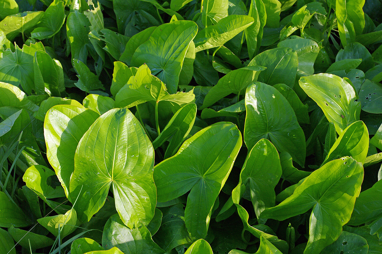 Leaves probably of Broad Leaf Arrowhead, Sagittaria latifolia, growing in a ditch near the town of Salzwedel, Germany. In contrast to the indigenous Arrowhead Sagittaria sagittifolia, this species is a synanthropic neophyte from North America.